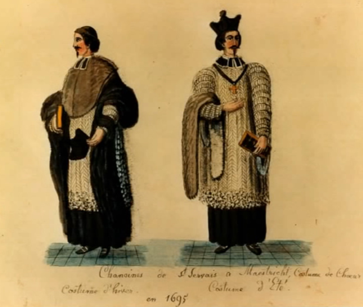 Canons of the Curch of Saint Servatius in Maastricht, the Netherlands, around 1695. Drawing by Philippus van Gulpen (1792-1862), based on older sources(?).